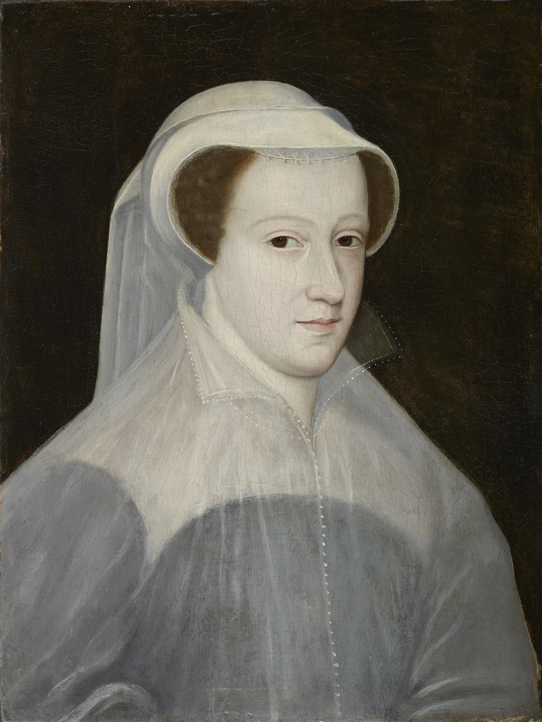 Portrait of Mary, Queen of Scots in white mourning (deuil blanc), c. 1560-61.